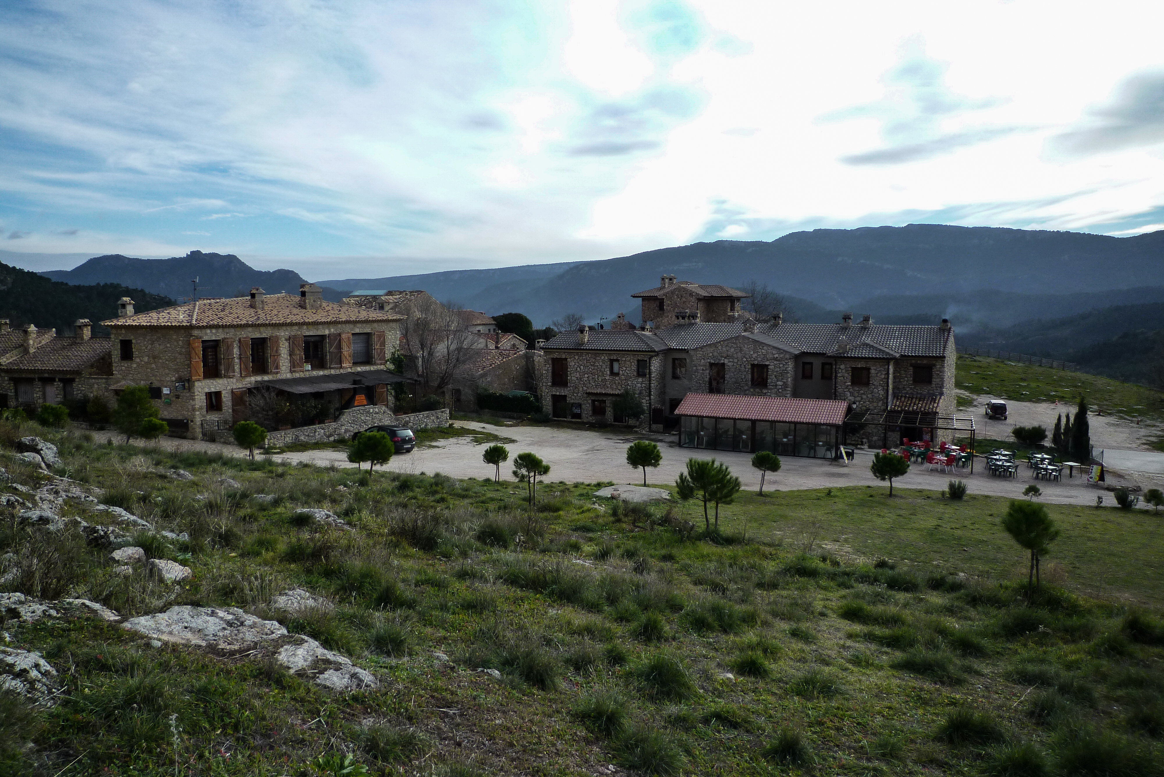 View of Riópar Viejo in Albacete, Spain.